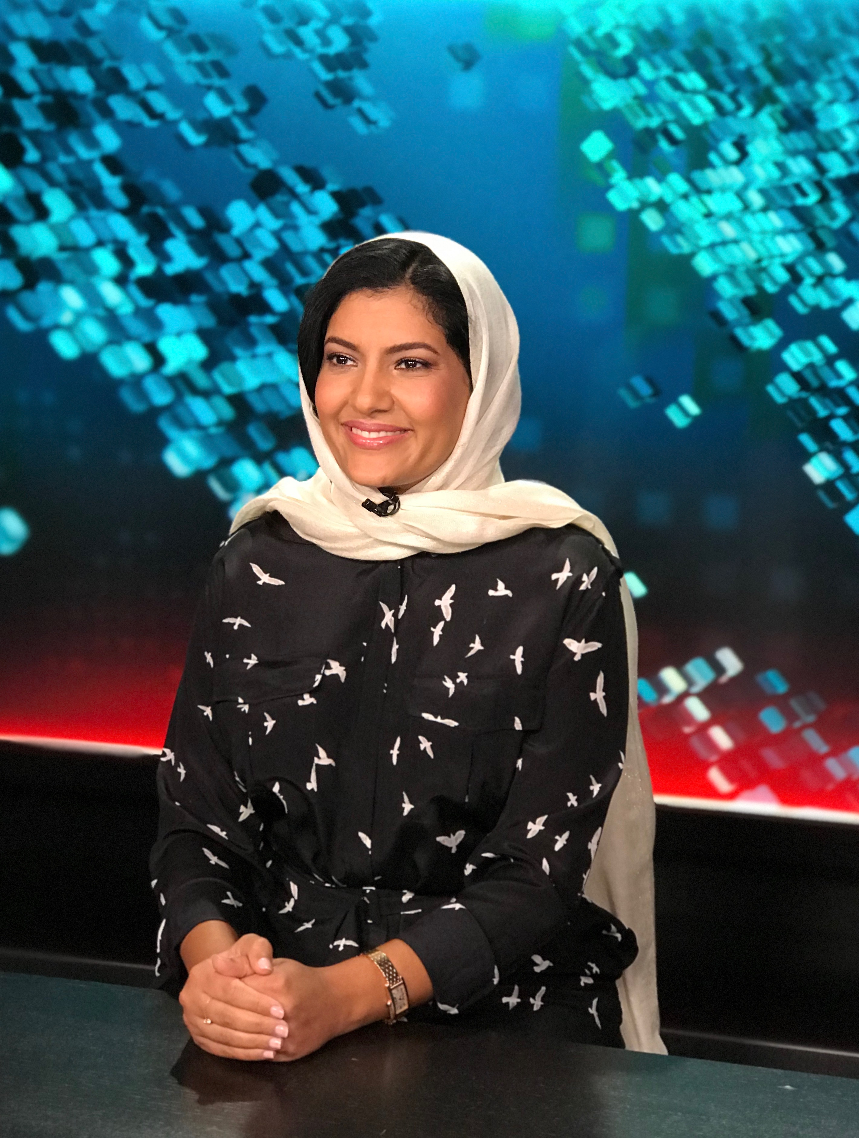 Princess Reema at CNN Headquarters in Los Angeles on June 25th, 2018.